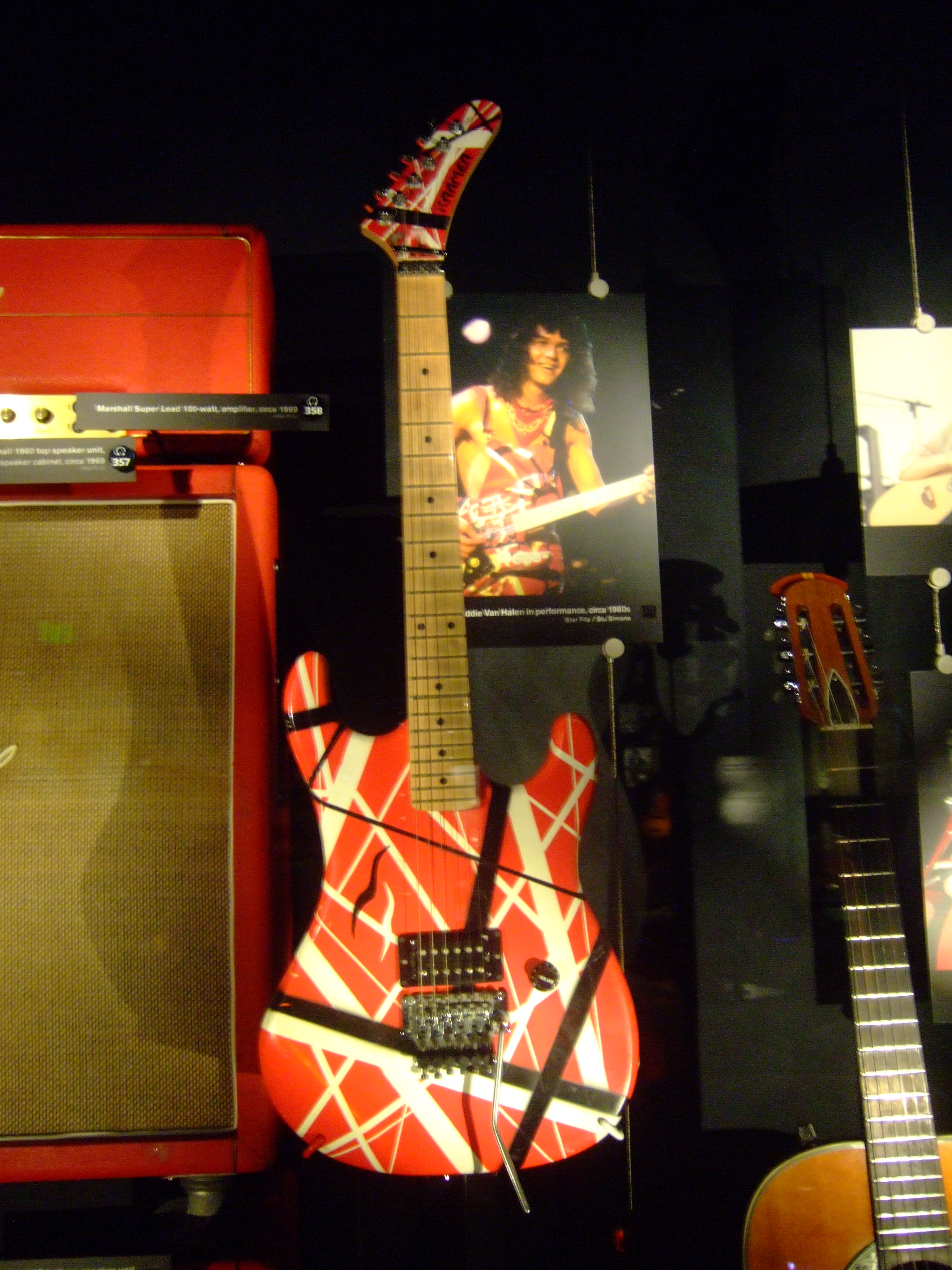 Eddie Van Halen's guitar Experience Music Project, Seattle. DSCF1391